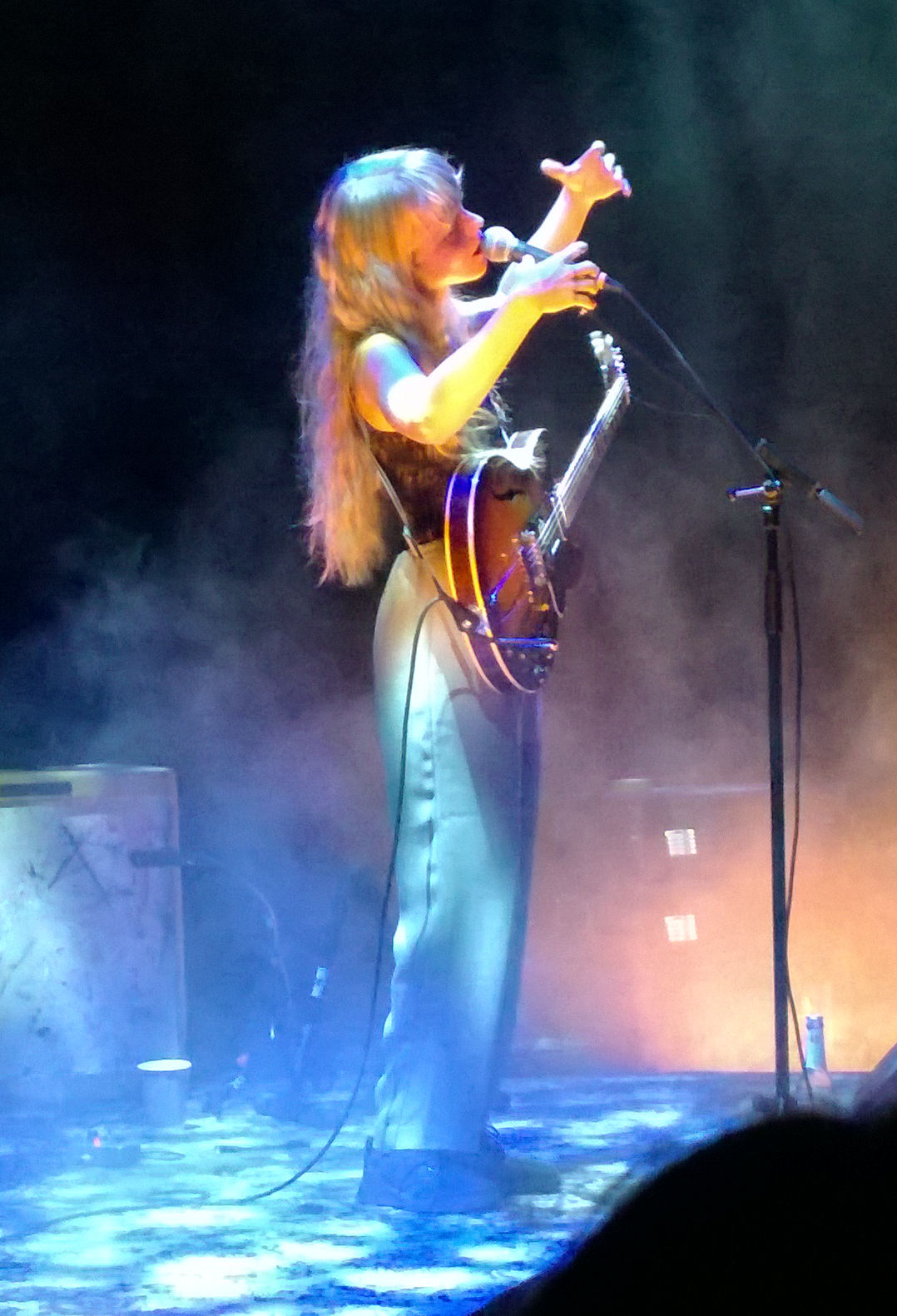 Alice Phoebe Lou singing at Funkhaus Berlin, Germany on Dec. 1, 2018